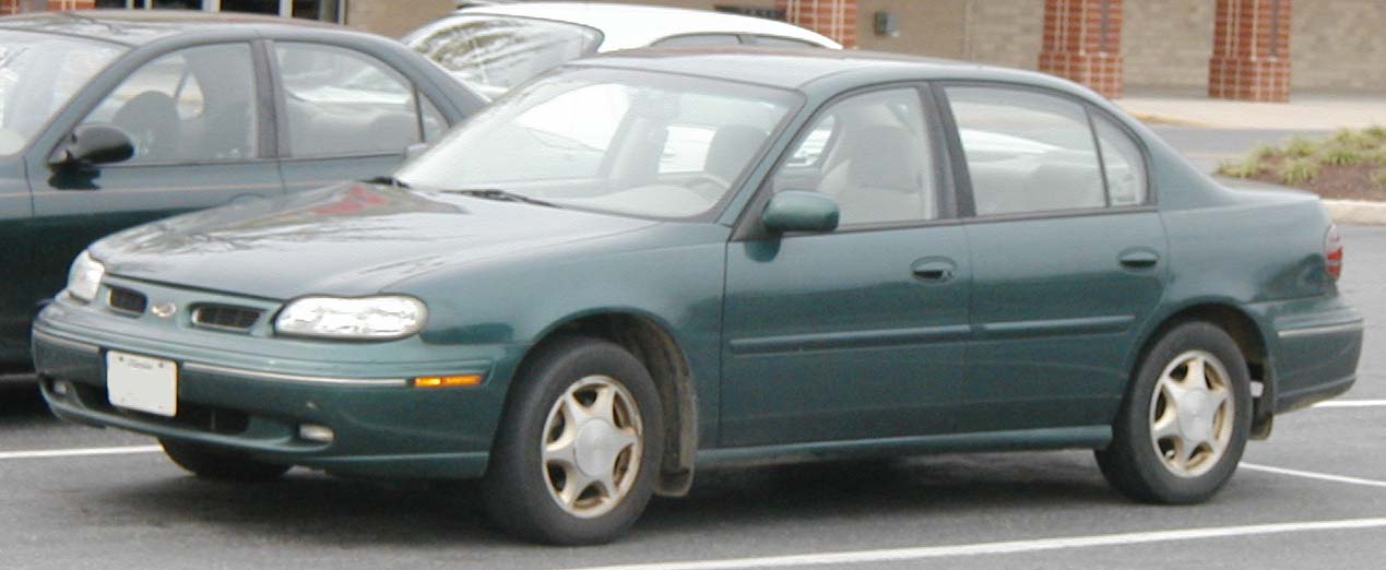 1997-1999 Oldsmobile Cutlass photographed in USA.